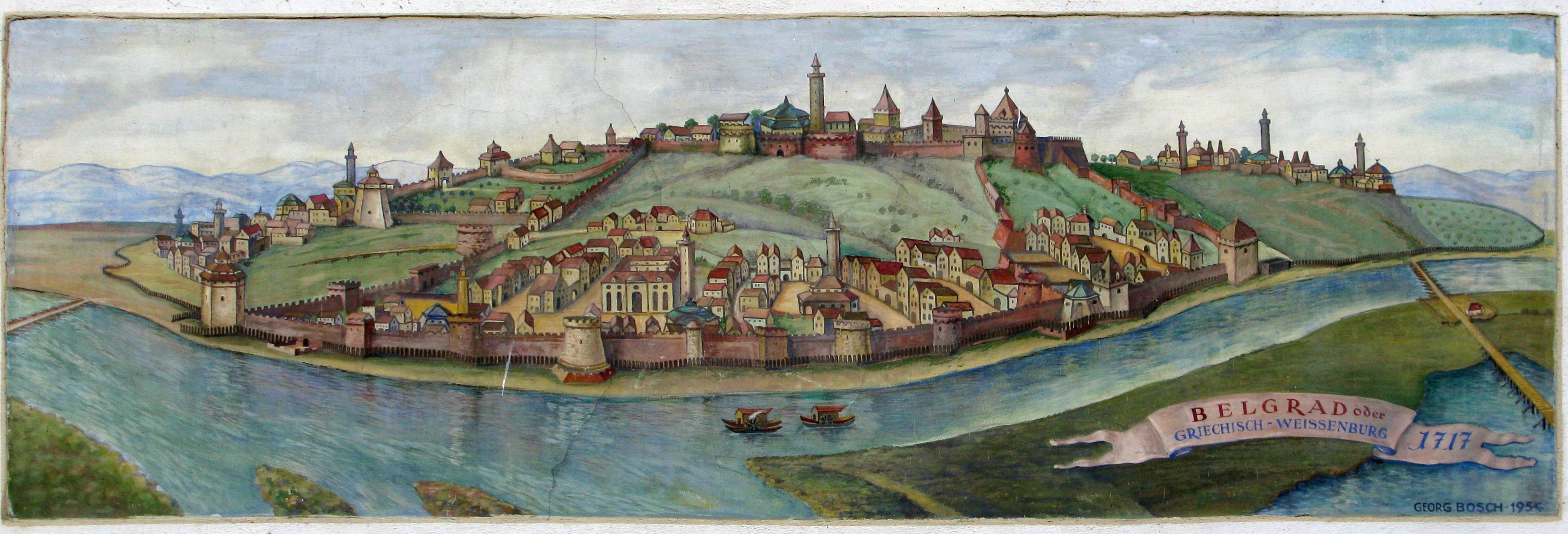 Painting of Belgrade of 1717 by Georg Bosch (painted in 1956) on the wall of a historic building at the Fischerplätzle in Ulm (district: Fischerviertel).